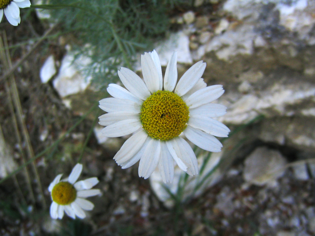 Anthemis cupaniana flowers